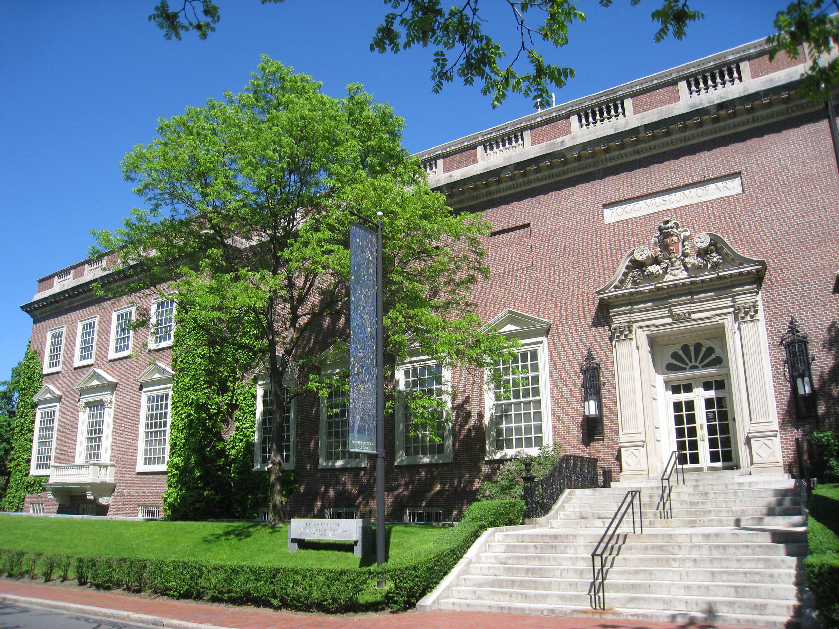 Fogg Art Museum, Harvard University, Cambridge, Massachusetts, USA. Architects: Coolidge, Shepley, Bulfinch, and Abbott; current building opened in 1925.